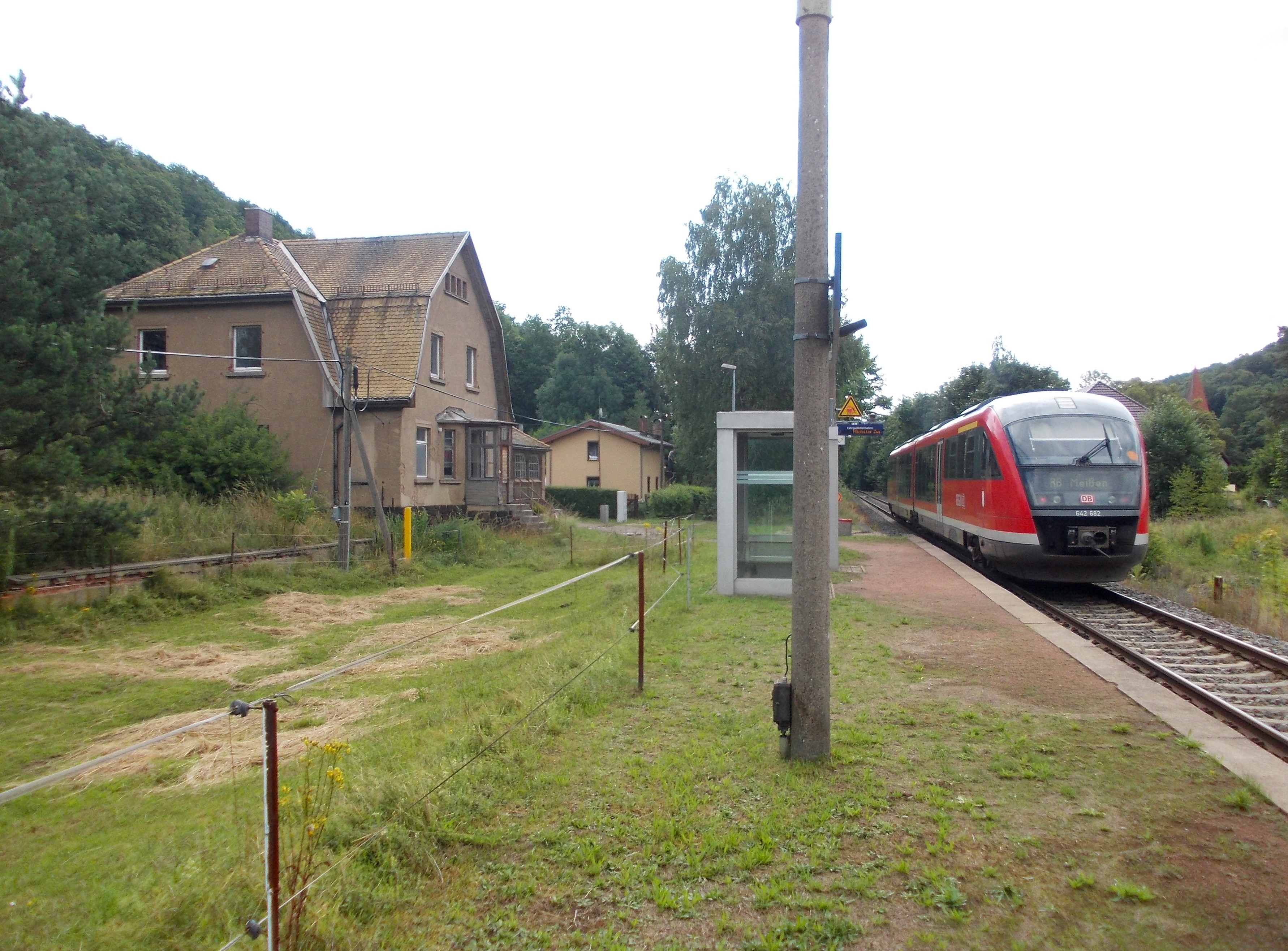 Gleisberg-Marbach train station (Rosswein, Mittelsachsen district, Saxony)